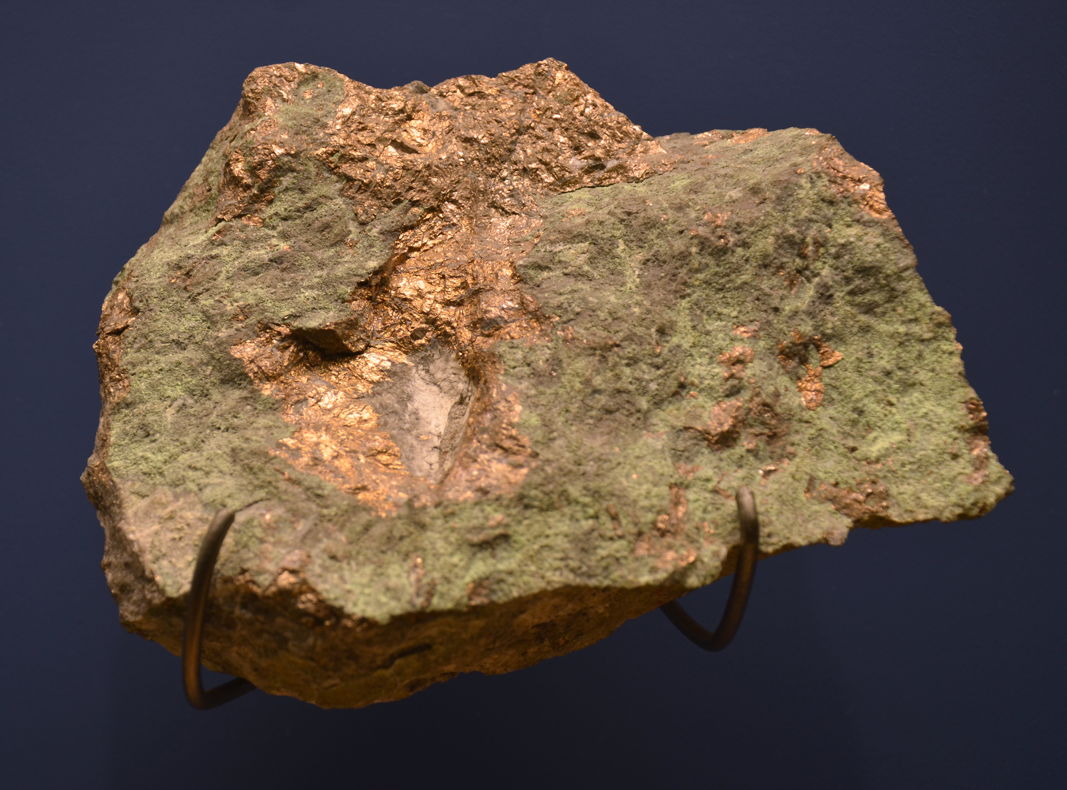 Nickeline from Marocco, Museum des Sciences Naturelles in Brussel.